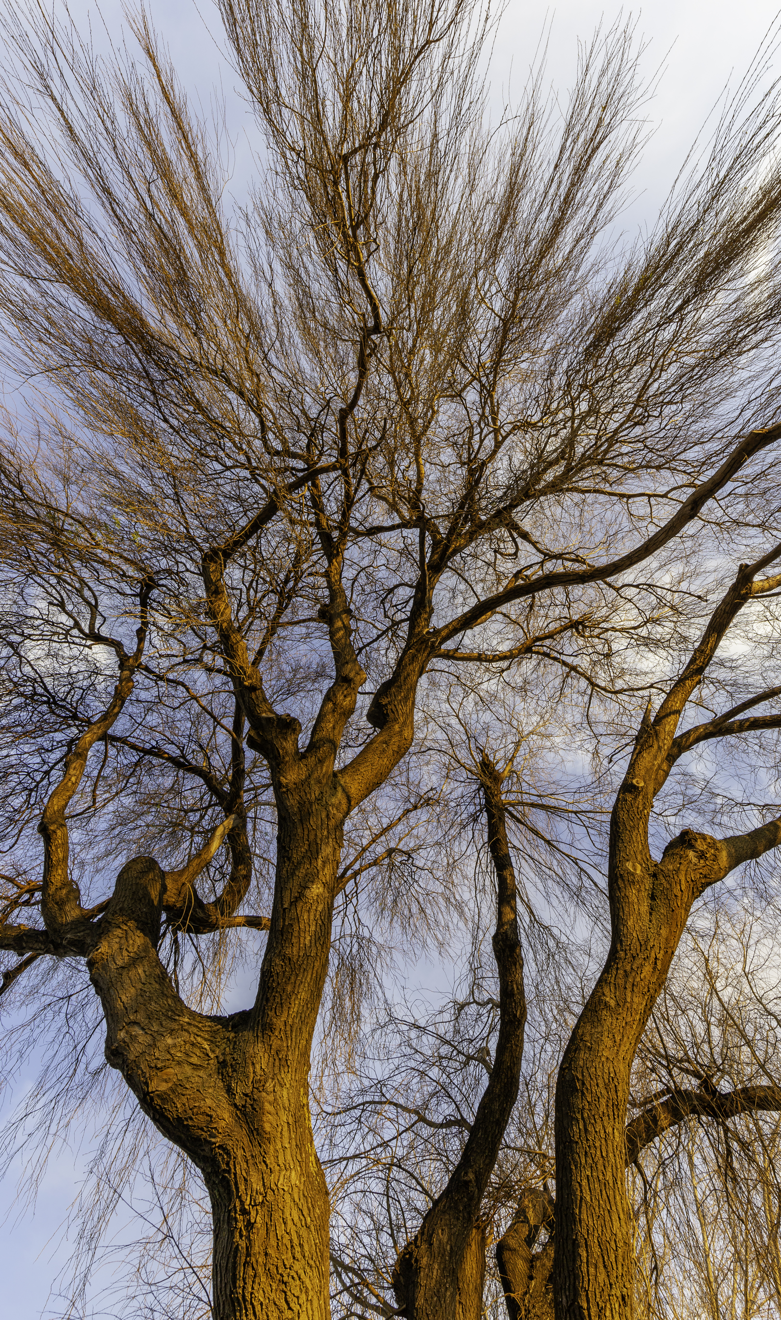 Weeping Golden Willow in the Red Zone by River Avon, Christchurch, New Zealand. The picture was taken right before the sunset, about a minute later the sun was below the horizon - hence the red colour.